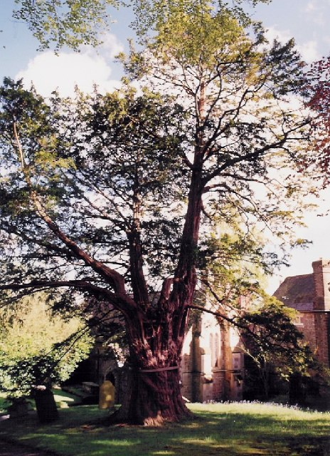 Ancient Yew, Church Preen. The Yew is understood to be older than the 13th Century church.